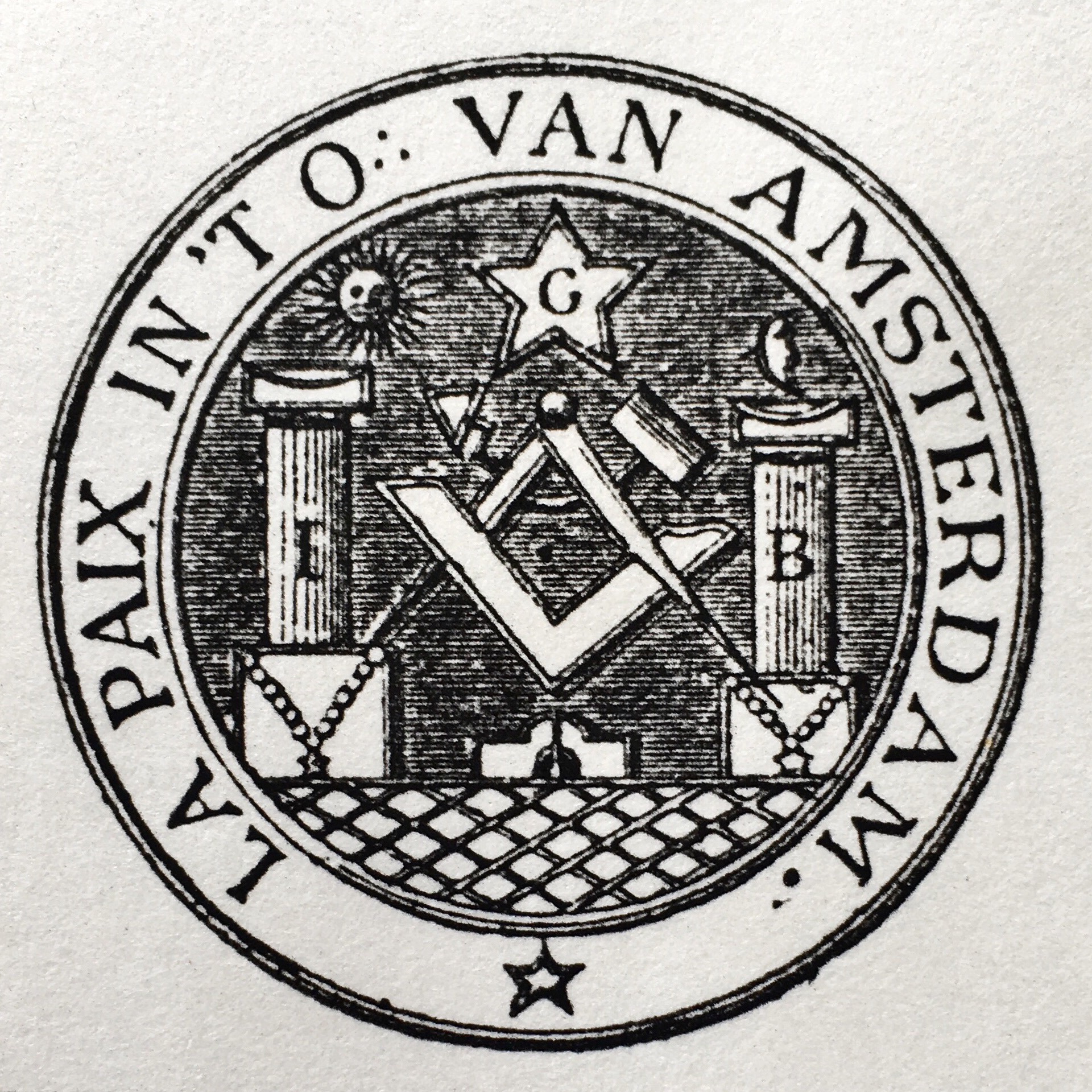 Seal or stamp of Dutch masonic lodge